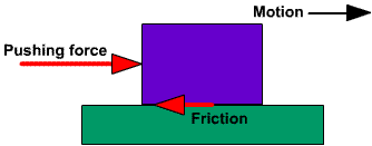 a friction diagram